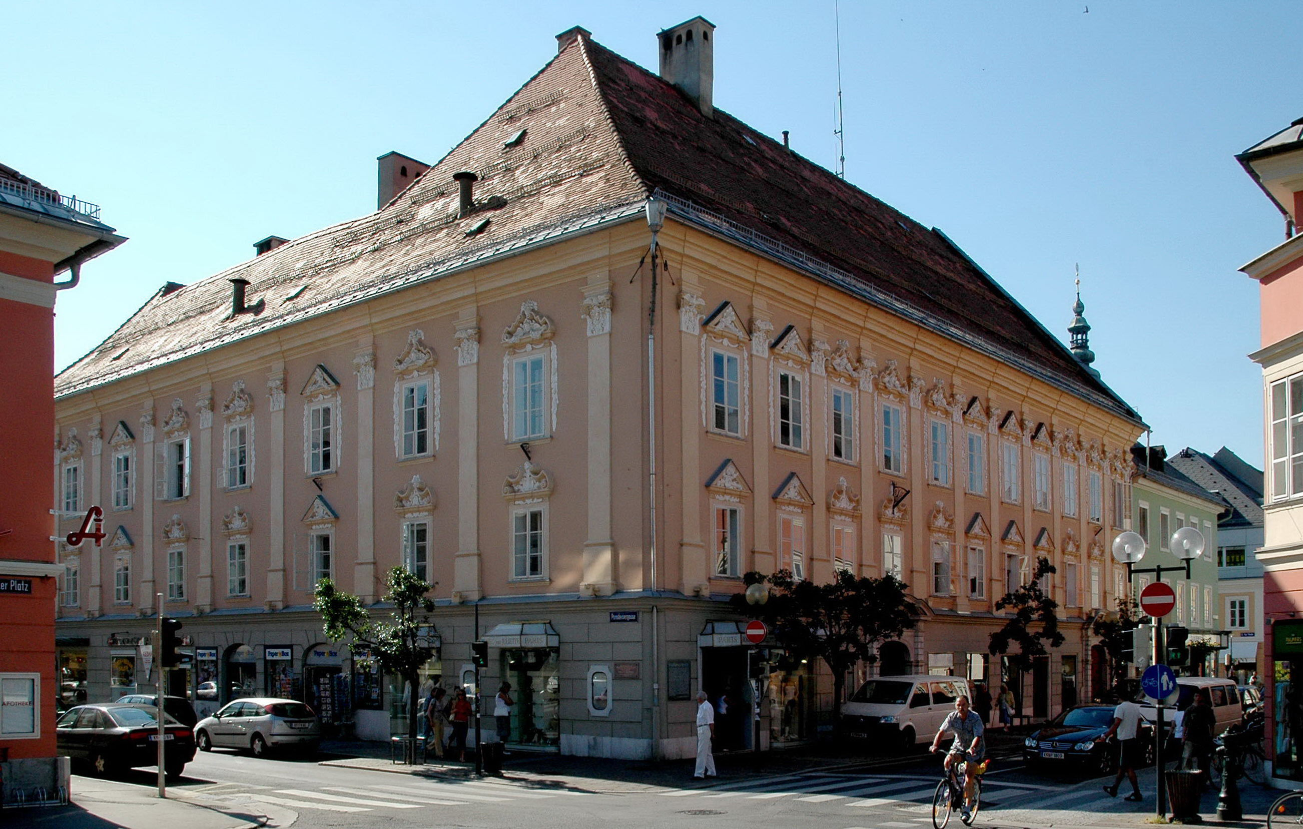 Viktringerhof on Karfreitstrasse #1, inner city, Klagenfurt, Carinthia, Austria, EU